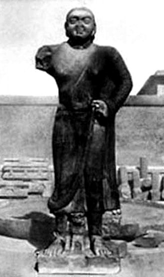 A better image Complete inscription of Bhikshu Bala (translation on image file). A very similar statue of a Bodhisattva from Kausambi, inscribed Year 2 of Kanishka.Bodhisattava dedicated by Bhikshu Bala at Sarnath dated 123 CE by an inscription of Year 3 of the reign of Kanishka.Besides the inscription on the octogonal shaft of the umbrella (here attached), which is the longest, there are also two smaller inscriptions of similar content at the base of the statue: At the front of the base of the statue: "The gift of Friar Bala, a master of the Tripitaka, (namely an image of) the Bodhisattva, has been erected by the great satrap Kharapallana together with the satrap Vanashpara." EI8 p.179 At the back of the base of the statue: "In the 3rd year of the Maharaja Kanishka, the 3rd (month) of winter, the 23rd day, on this (date specified as) above has (this gift) of Friar Bala, a master of the Tripitaka, (namely an image of) the Bodhisattva and an umbrella with a post, been erected." EI8 p.179 "The style is that of the Mathura school, the material is the red sandstone of the Agra quarries" EI8 p.179